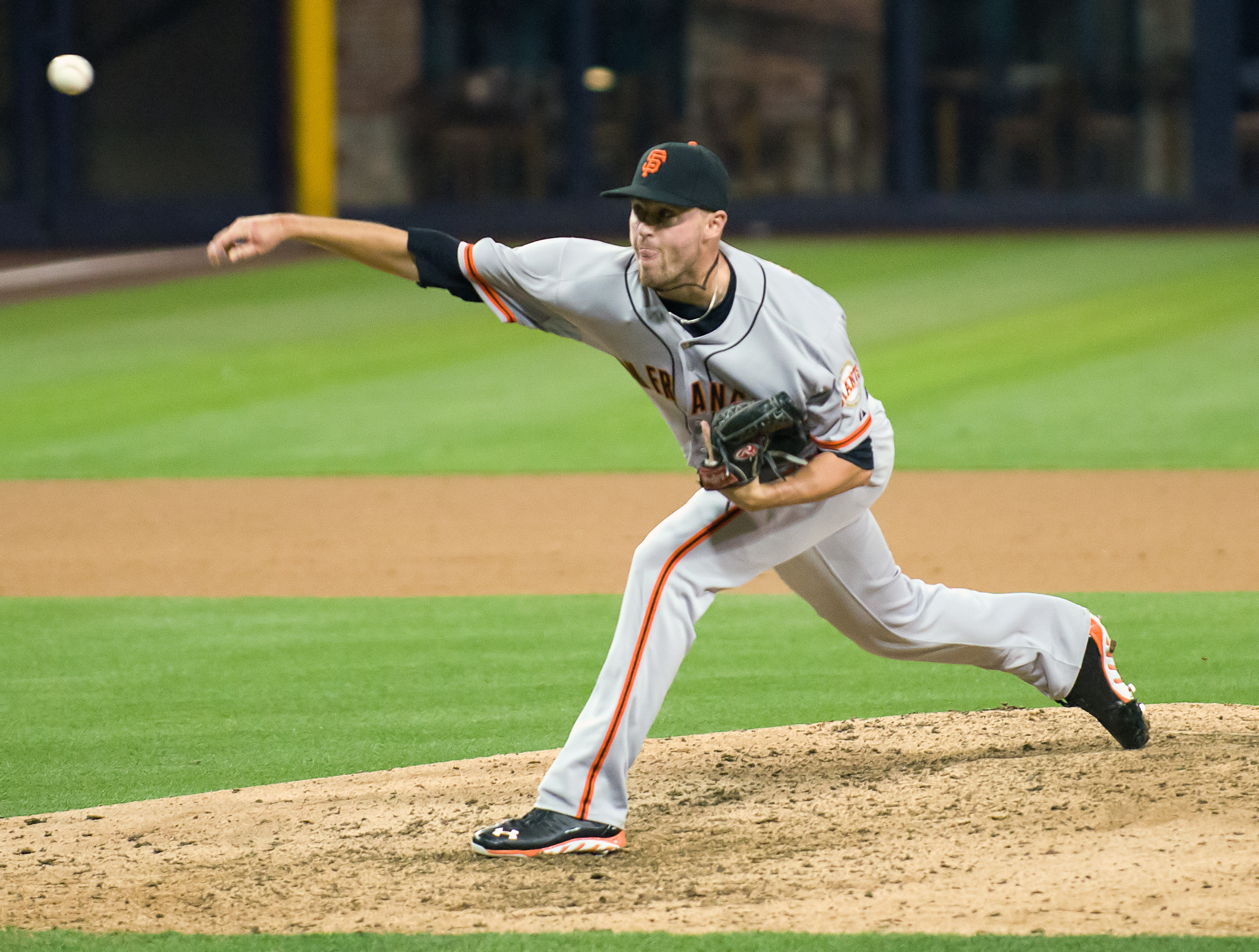 Heath Hembree